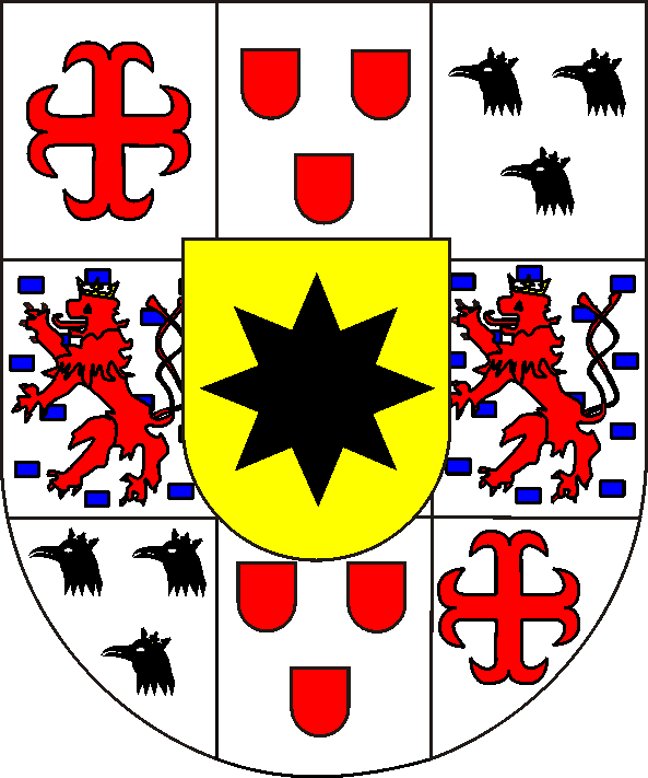 coats of arms of the county of Waldeck; 1,9: county of Pyrmont; 2,8: principality of Rappoltstein; 3,7: lordship of Hoheneck; 4,6: lordship of Geroldseck; heart: county of Waldeck